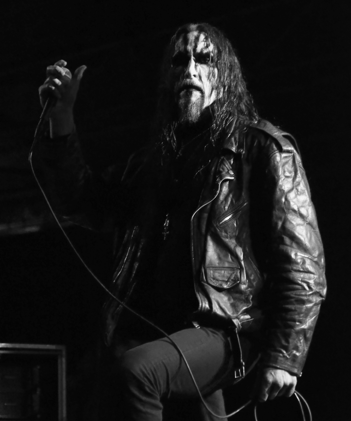 Gaahl during the last concert of God Seed, at the Motocultor Festival ( in Saint-Nolff, France ), the 15th of August 2015.